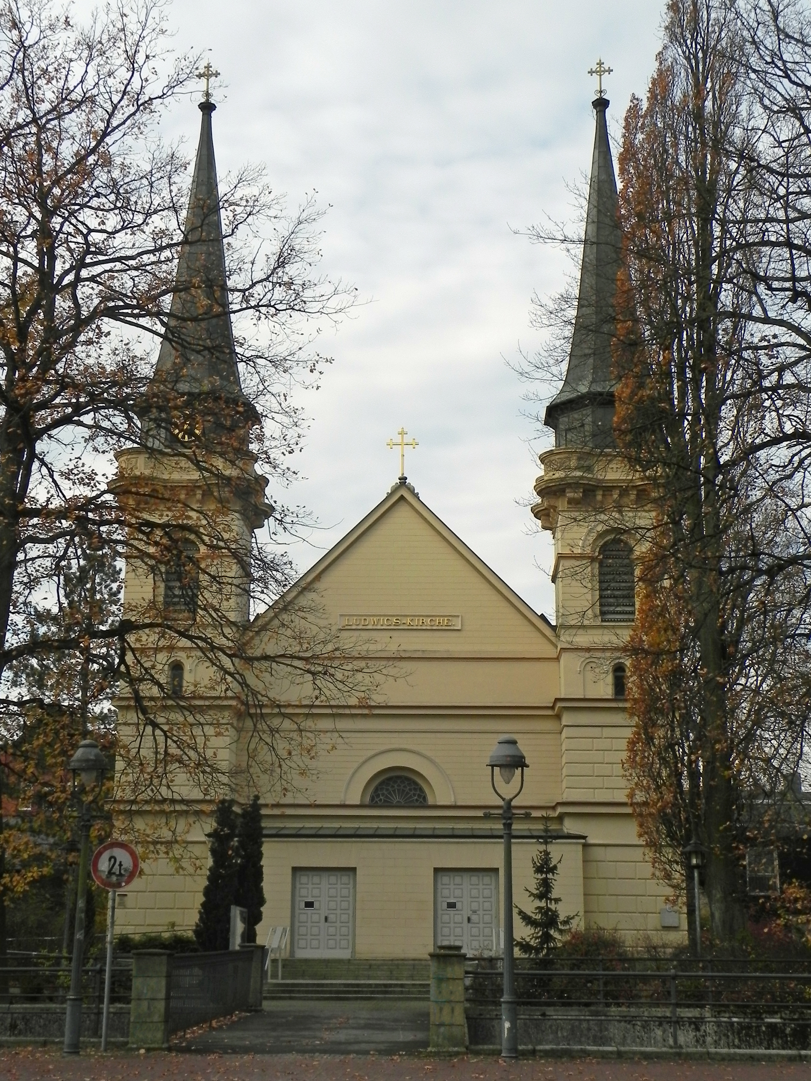 Church St.Ludwig Celle, Lower Saxony, Germany